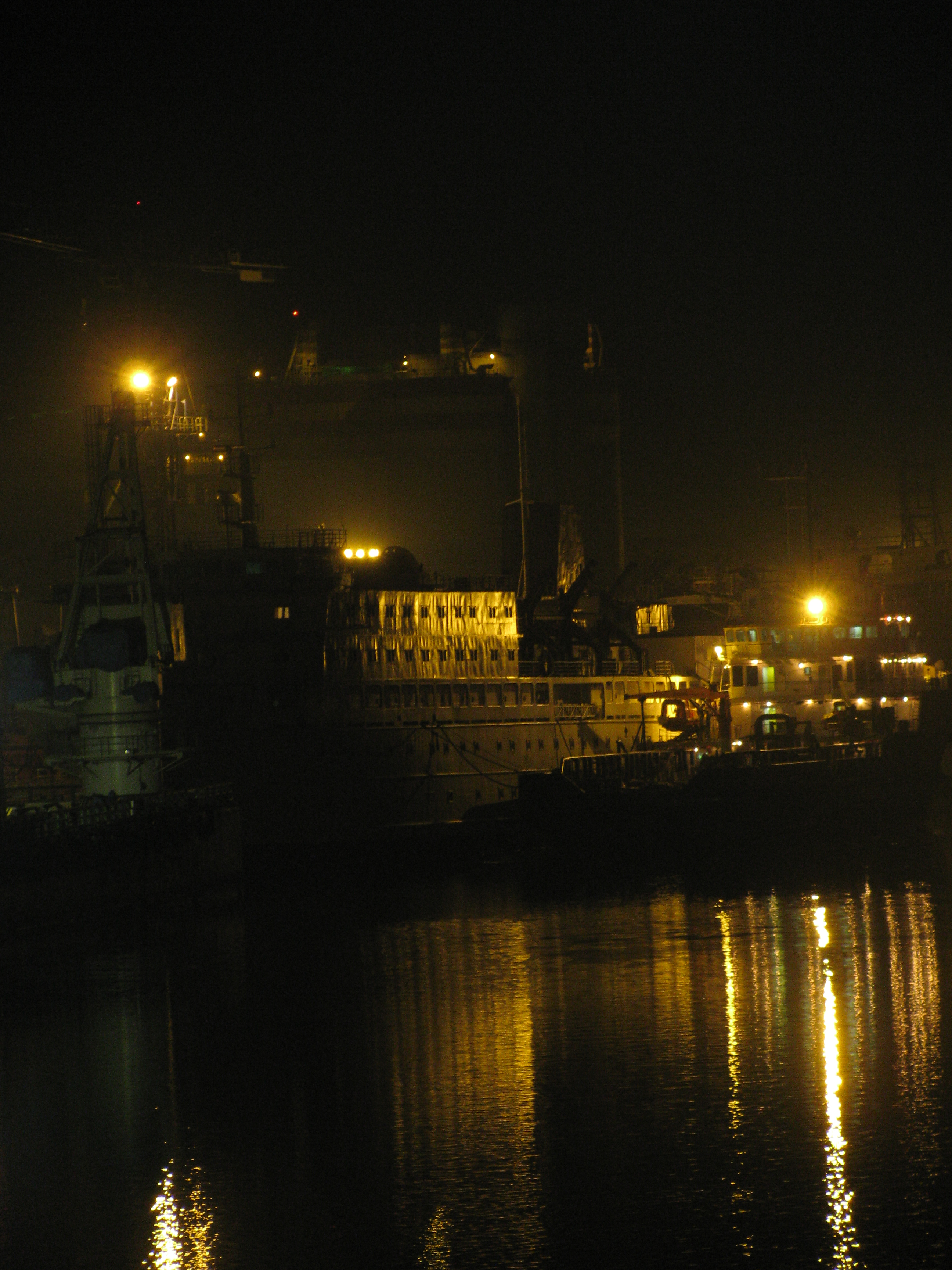 Magdalla Ship Building Yard , as seen from ONGC Bridge